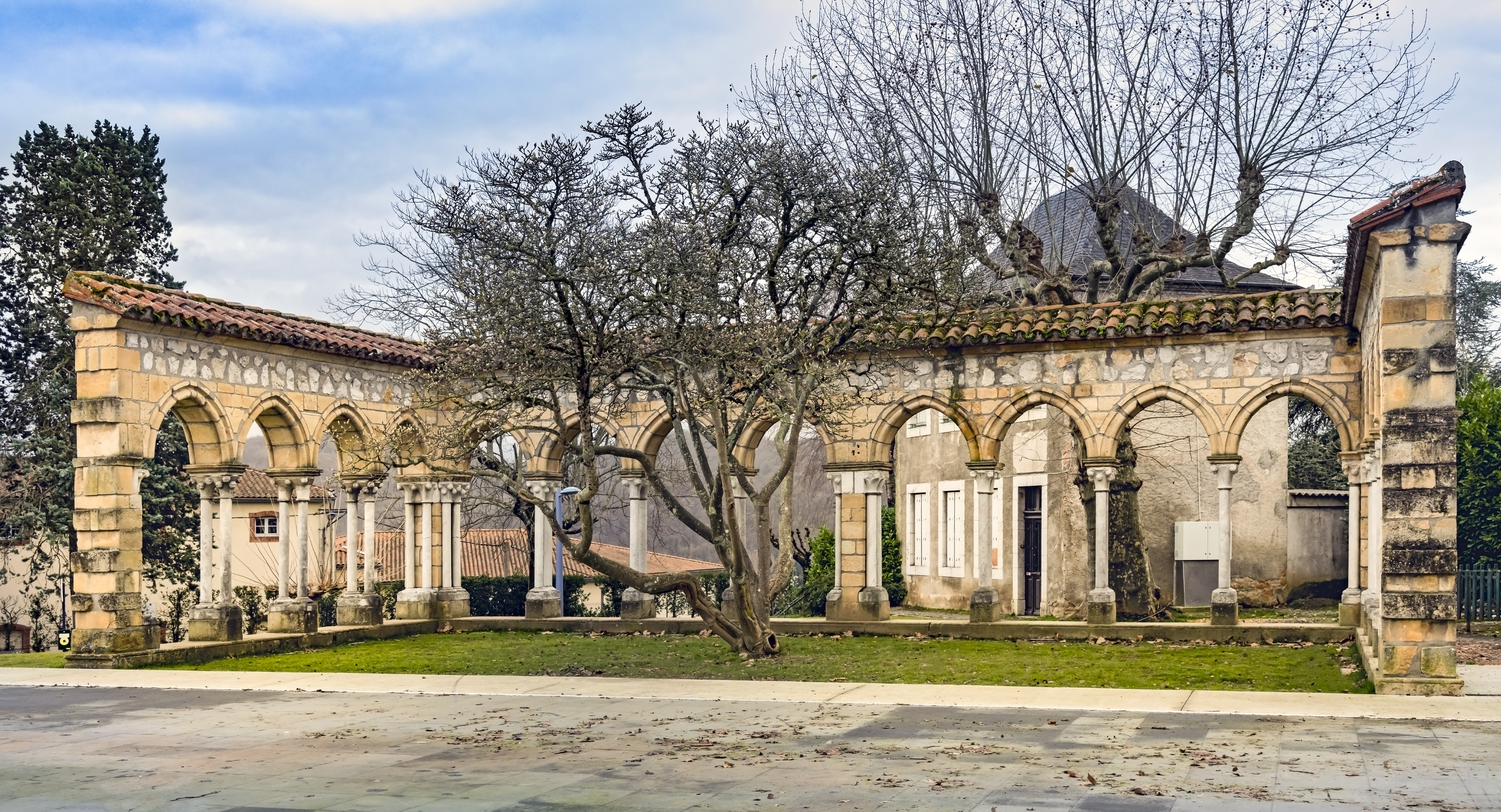 Former Bonnefont Abbey - Remains of the 13th century cloister in Saint-Gaudens, Haute-Garonne, France